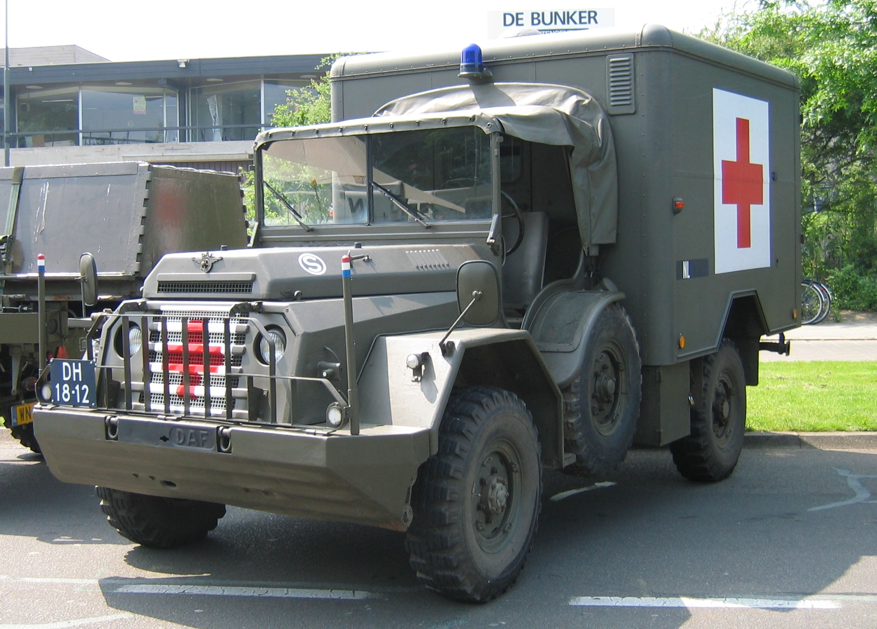 A DAF YA-126 GWT Ambulance automobile at the DAF exposition during the Eindhoven Pole Position weekend.